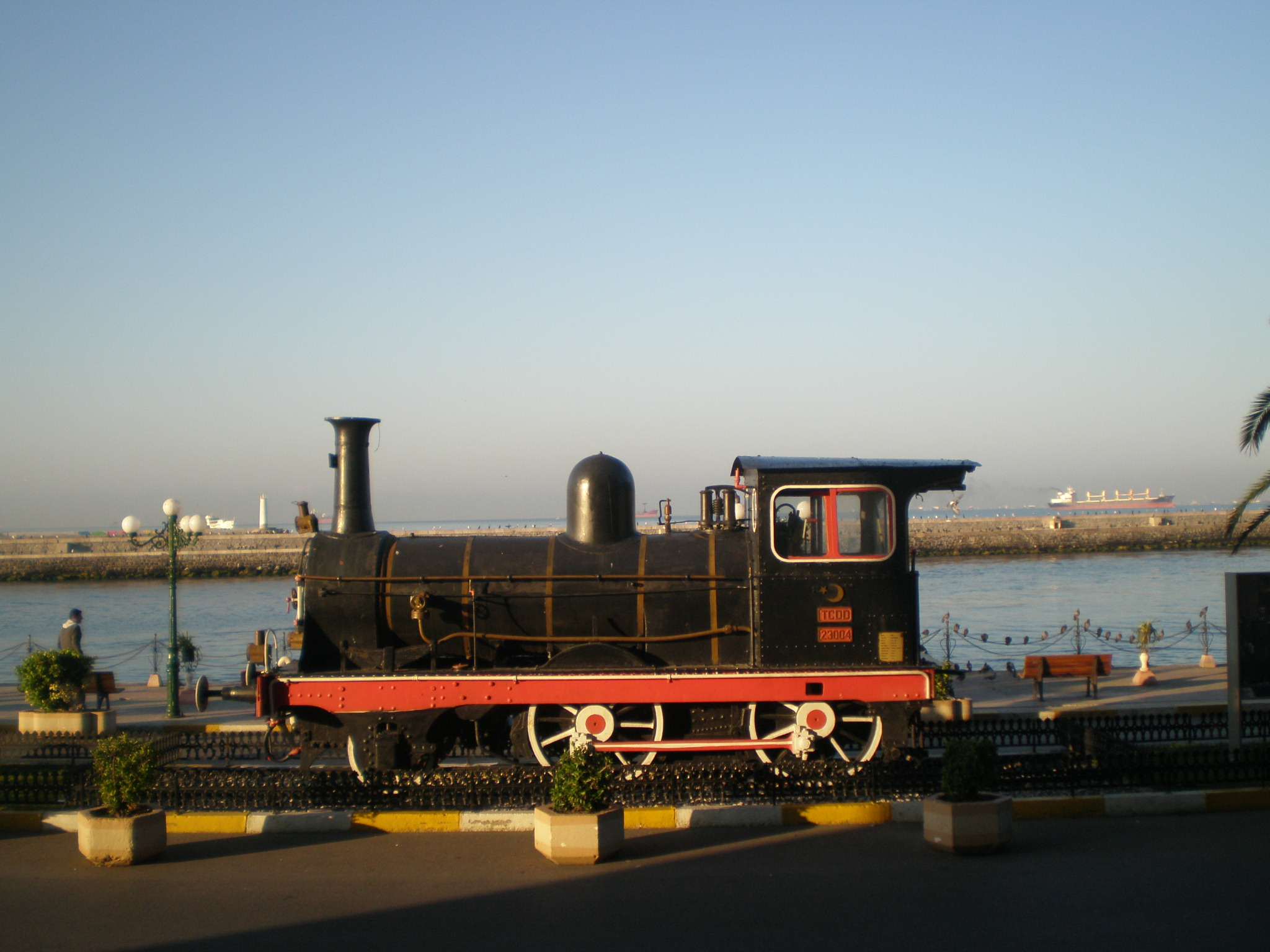 This locomotive stays in front of the Haydarpaşa Train Station in İstanbul.